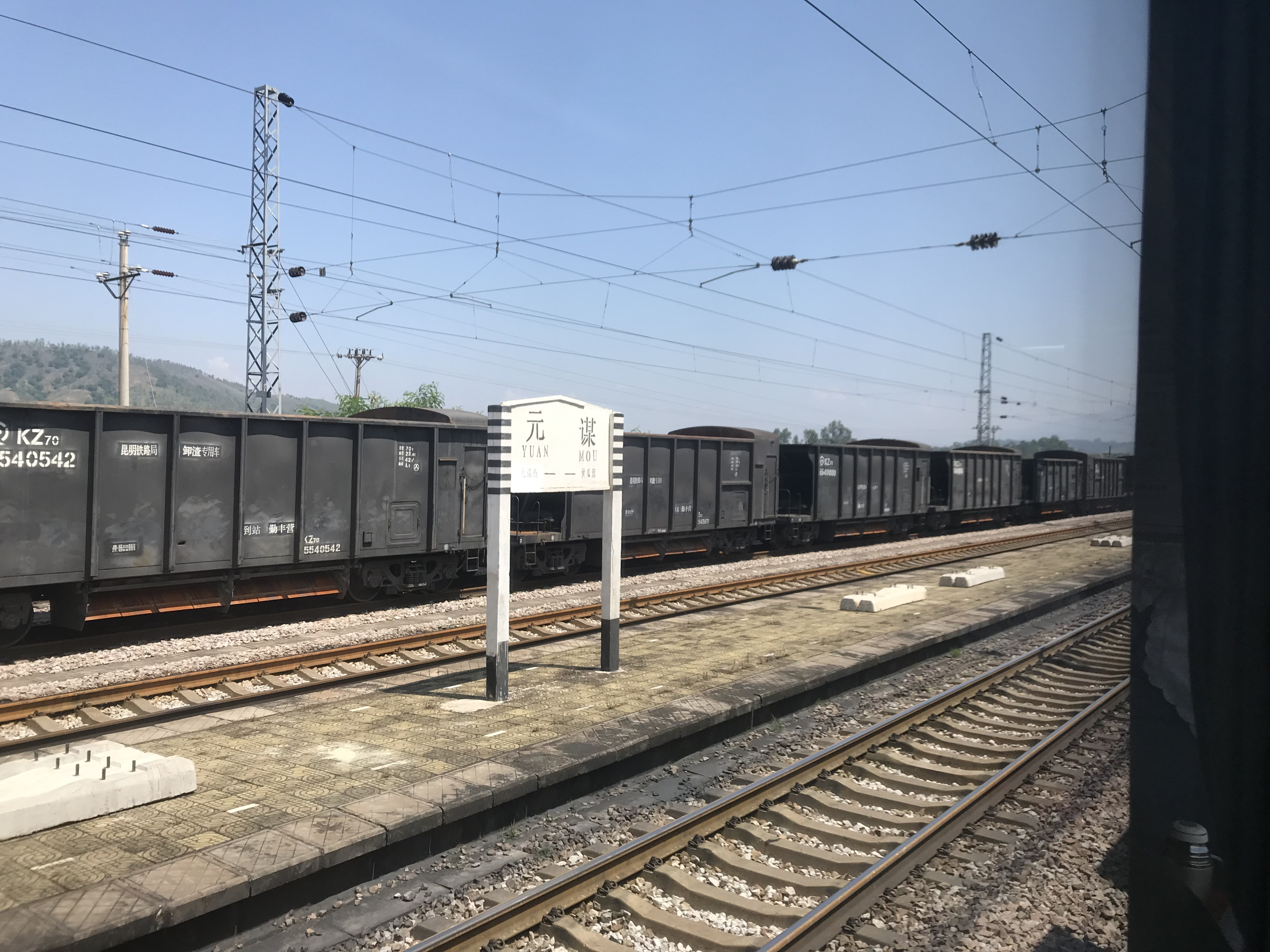 201908 Nameboard of Yuanmou Station